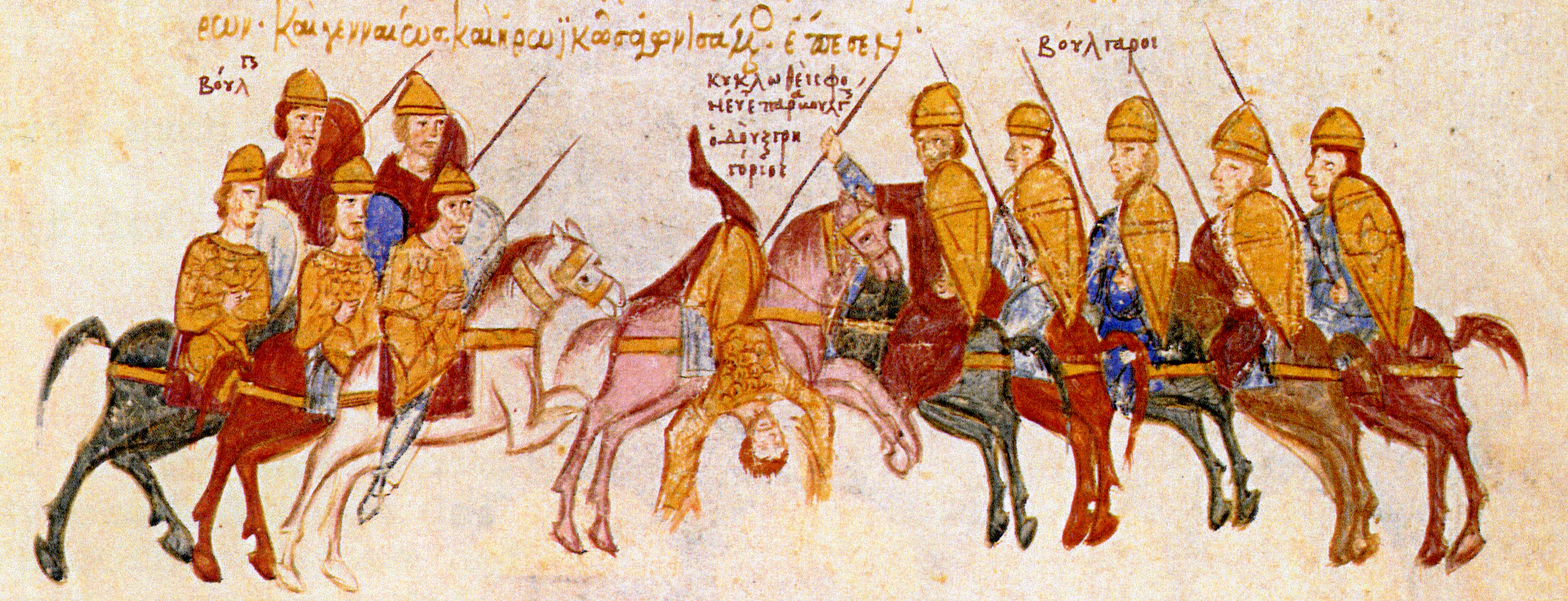 Skyllitzes Matritensis, fol. 184v, detail. Miniature: Bulgarians ambush and kill the governor of Thessalonica, Duke Gregory Taronites. Text from the Chronicle of John Skylitzes: "... Samuel was campaigning against Thessalonike. He divided the majority of his forces to man ambushes and snares but he sent a small expedition to advance right up to Thessalonike itself. When duke Gregory [Taronites] learnt of this incursion he despatched Asotios, his own son, to spy on and reconnoitre the [enemy] host and to provide him with inteligence and then he himself came along afterwards. Asiotios set out and came into conflict with the [enemy] vanguard which he put to flight, only to be taken unwittingly in an ambush. On hearing of this Gregory rushed to the help of his son, striving to deliver him from captivity, bu he too was surrounded by Bulgars; he fell fighting nobly and heroically. ..." (Translated by John Wortley, in: John Skylitzes: A Synopsis of Byzantine History, 811-1057: Translation and Notes, p. 323) References: Ioannis Scylitzae Synopsis Historiarum. Editio Princeps. Rec. Ioannes Thurn, p. 341, in: Corpus Fontium Historiae Byzantinae 5 Series Berolinensis, 1973 Tsamakda V.: The illustrated chronicle of Ioannes Skylitzes in Madrid, p. 221 Божилов Ив.: Българите във Византийската империя, p. 183 Grabar A., Manoussacas M.: L'illustration du manuscript de Skylitzes de Madrid, p. 100 Божков А.: Миниатюри от Мадридския ръкопис на Йоан Скилица, p. 225